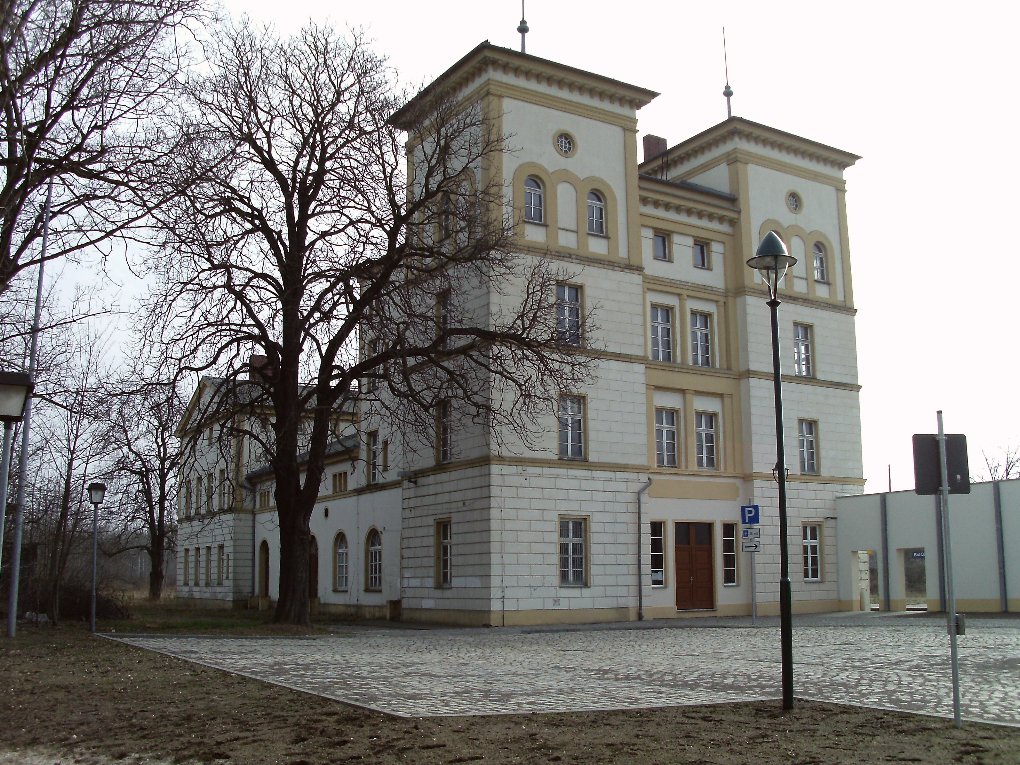 North side of Bad Dürrenberg station (district of Saalekreis, Saxony-Anhalt)